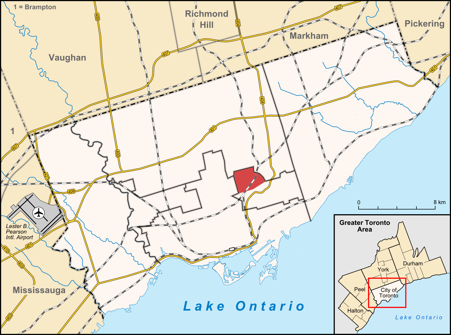 map of Leaside